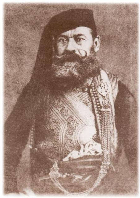 Kosta Hristov Popeto.